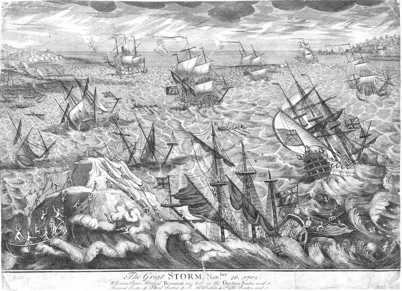 'The Great Storm Novber 26 1703 Wherein Rear Admiral Beaumont was lost on the Goodwin Sands... Beaumont's Squadron of Observation off Dunkerque'. No.25.